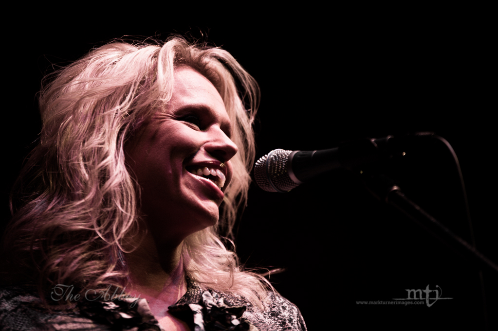 Australian singer, Beccy Cole, performing at the Abbey on 19 July 2013